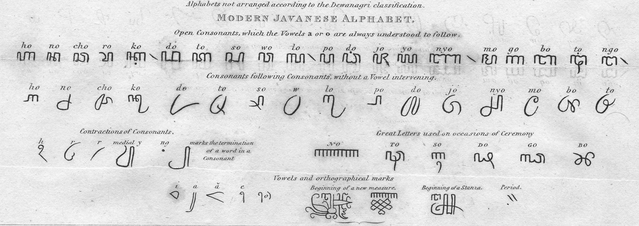 Modern Javanese alphabet Caption: Letters not arranged according to the Dewanagri classification Modern Javanese Alphabet. Open Consonants, which the Vowels a or o are always understood to follow ho no cho ro ko do to so wo lo po ḍo jo yo nyo mo go bo ṭo ngo ꦲ ꦤ ꦕ ꦫ ꦏ ꧈ ꦢ ꦠ ꦱ ꦮ ꦭ ꧈ ꦥ ꦢ ꦗ ꦪ ꦚ ꧈ ꦩ ꦒ ꦧ ꦛ ꦔ ꧈ Consonants following Comsonants, without a Vowel intervening ho no cho ko do to so w lo po do jo nyo mo bo to ◌꧀ꦲ ◌꧀ꦤ ◌꧀ꦕ ◌꧀ꦏ ◌꧀ꦢ ◌꧀ꦠ ◌꧀ꦱ ◌꧀ꦮ ◌꧀ꦭ ◌꧀ꦥ ◌꧀ꦝ ◌꧀ꦗ ◌꧀ꦚ ◌꧀ꦩ ◌꧀ꦧ ◌꧀ꦛ Contractions of Consonants h r r medial-y ng marks the termination of a word in consonant ꦃ ꦿ ꦂ ꦾ ꦁ ꧀ Great Letters used on occasions of Ceremony No To So Do Go Bo ꦟ ꦡ ꦯ ꦣ ꦓ ꦨ Vowels and orthographical marks [cannot be typed in] If you can't see the script above, consider reading the description from Javanese Wikipedia where Javanese script Webfont is installed: File:Javanese alphabet.jpg